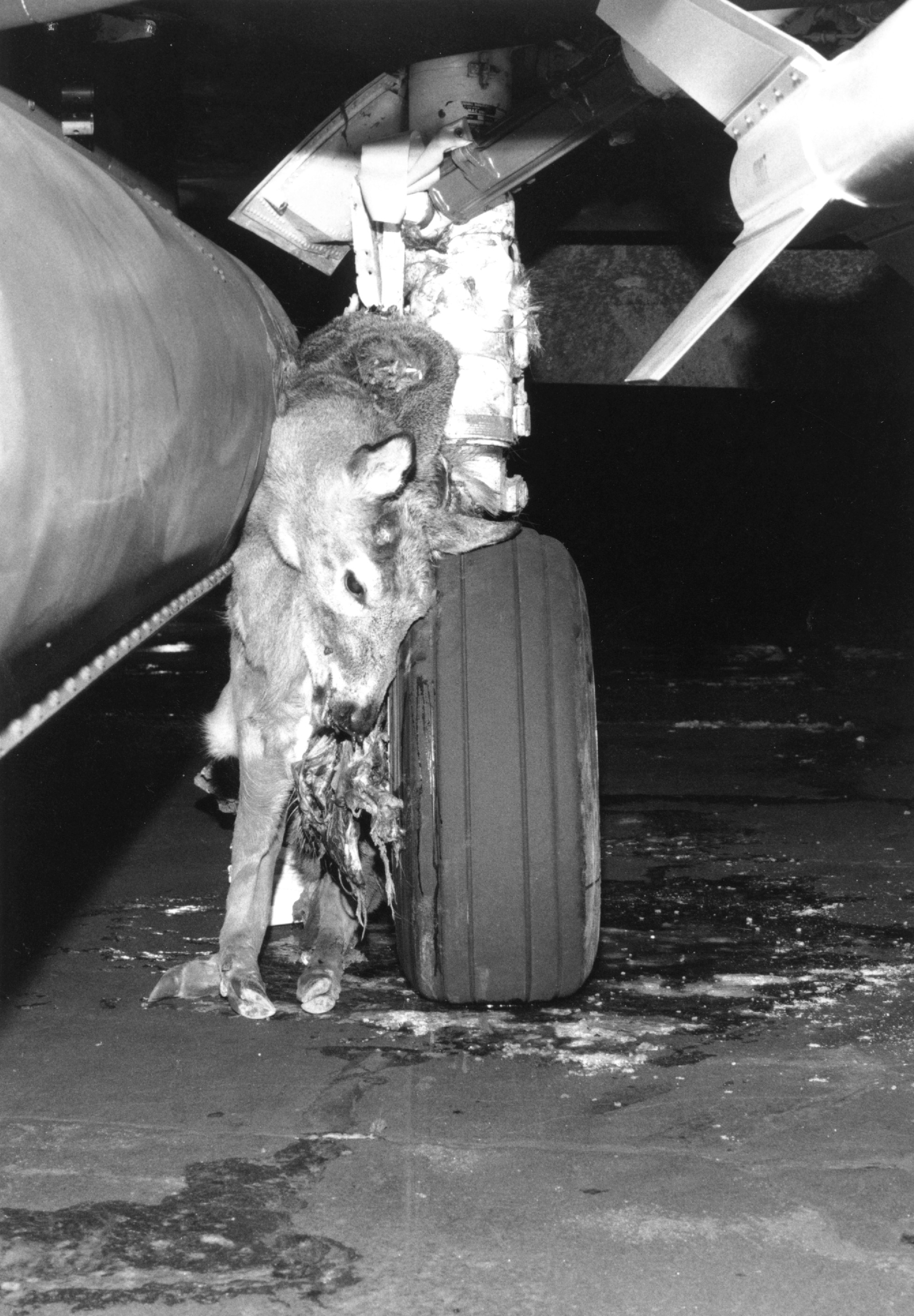 Deer and aircraft collision